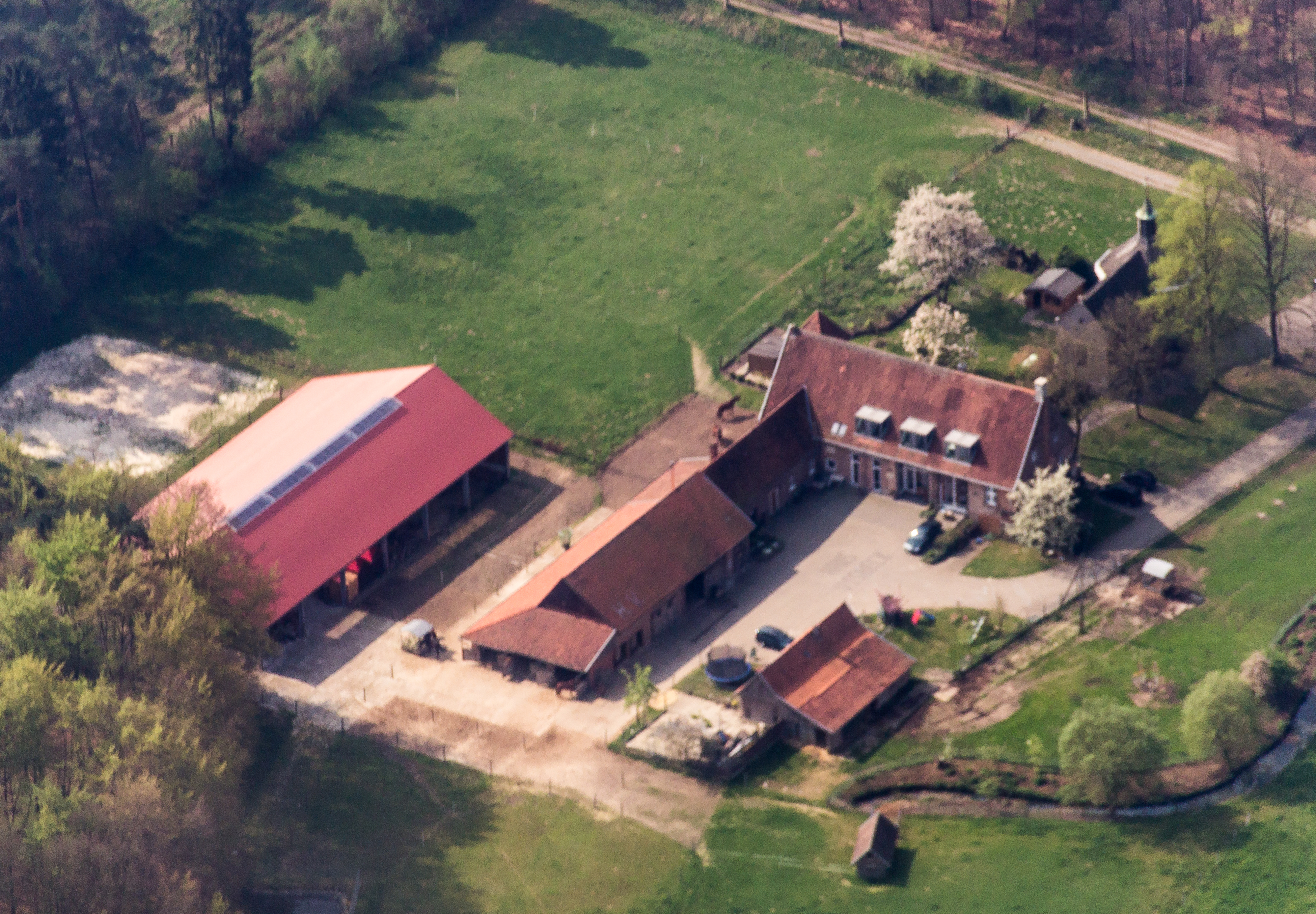 Visbeck Manor, Kirchspiel, Dülmen, North Rhine-Westphalia, Germany